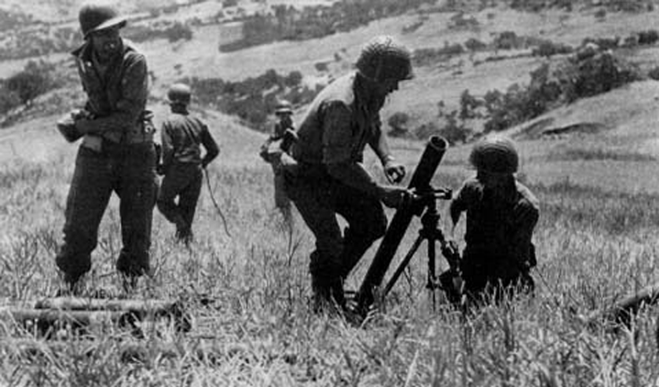 81-mm. mortars support Patton's drive on Palermo. (National Archives)